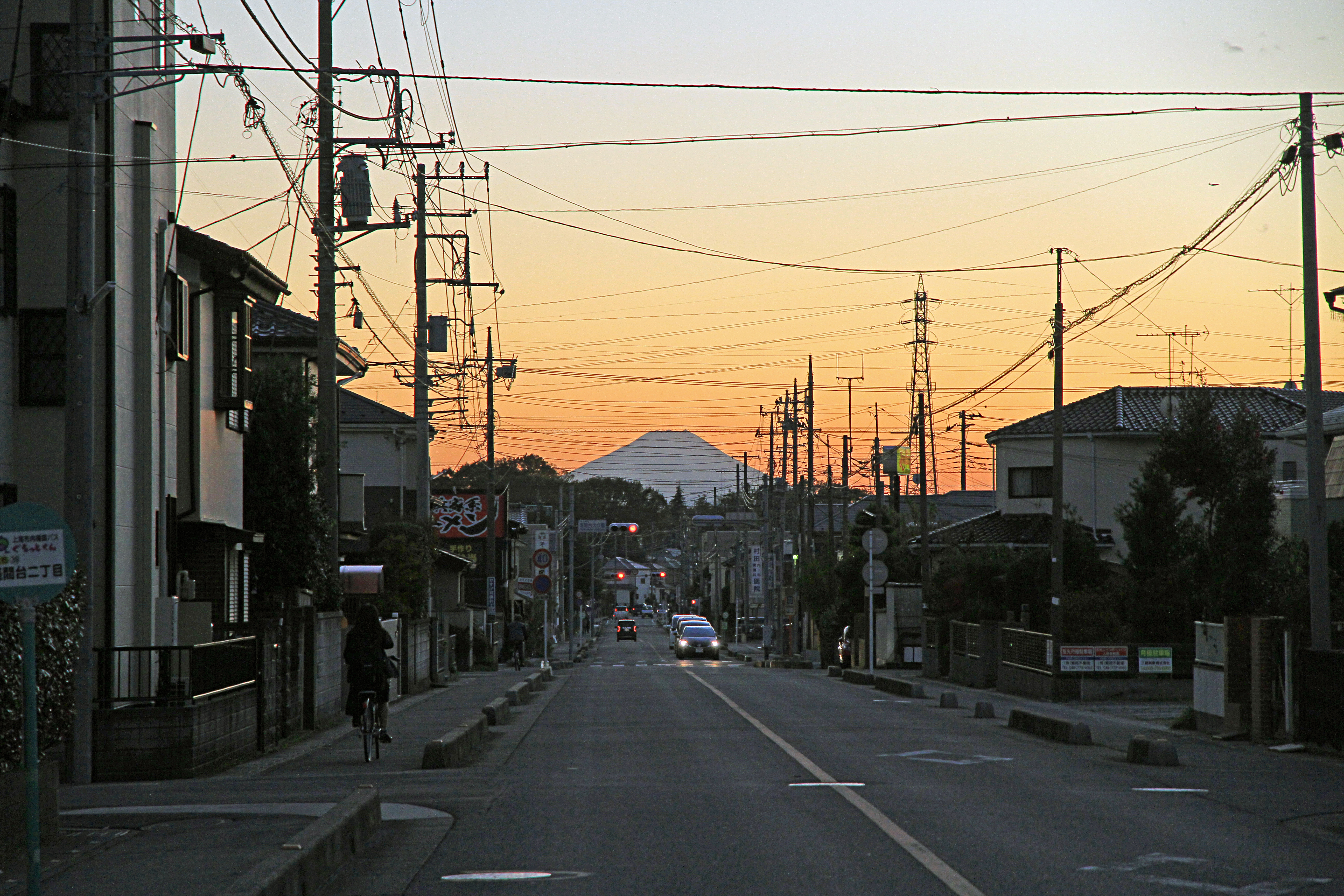 Asamadai 2-chome Ageo City, Saitama prefecture, Japan